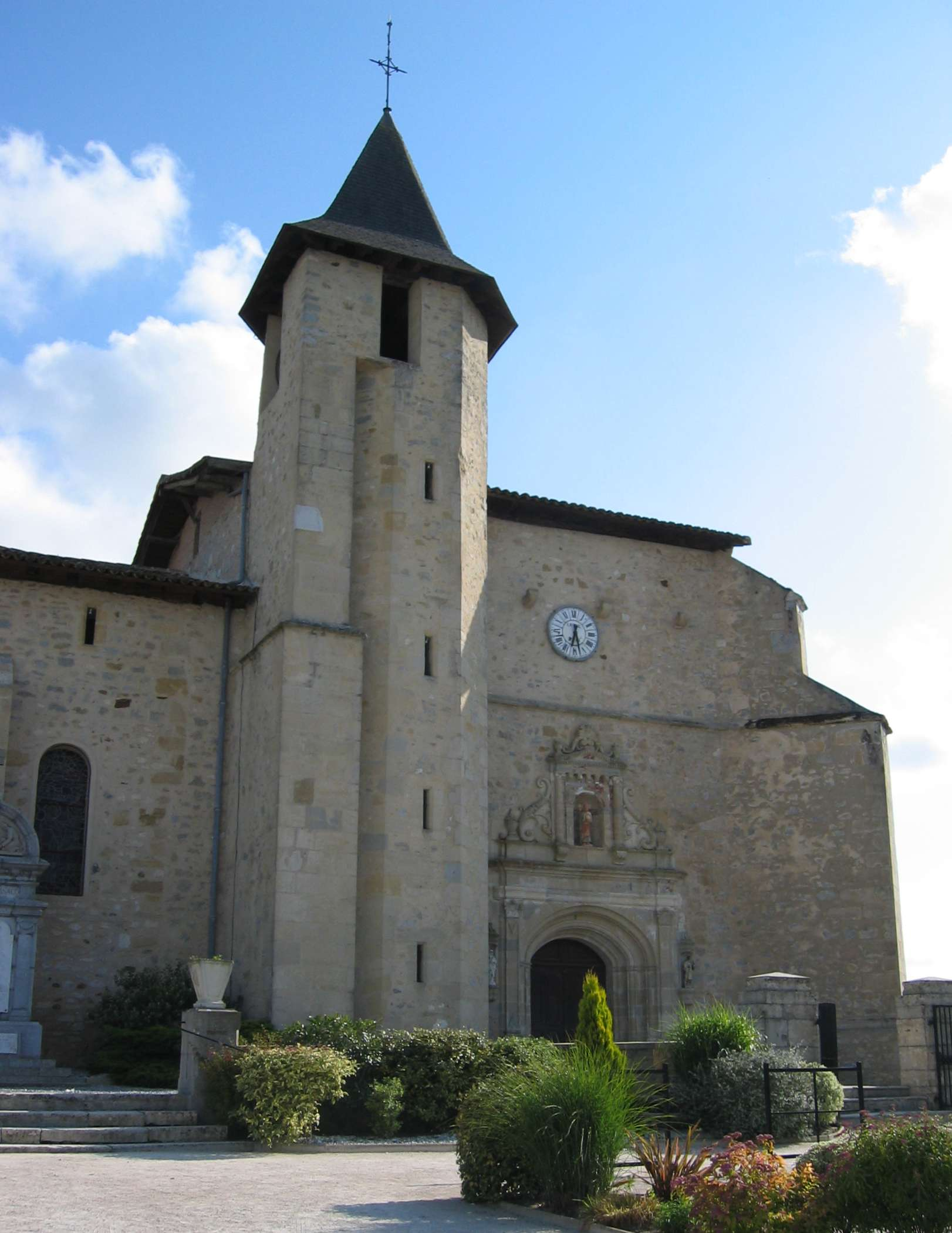 Church of Saint-Jean-de-Marsacq (France - Landes)